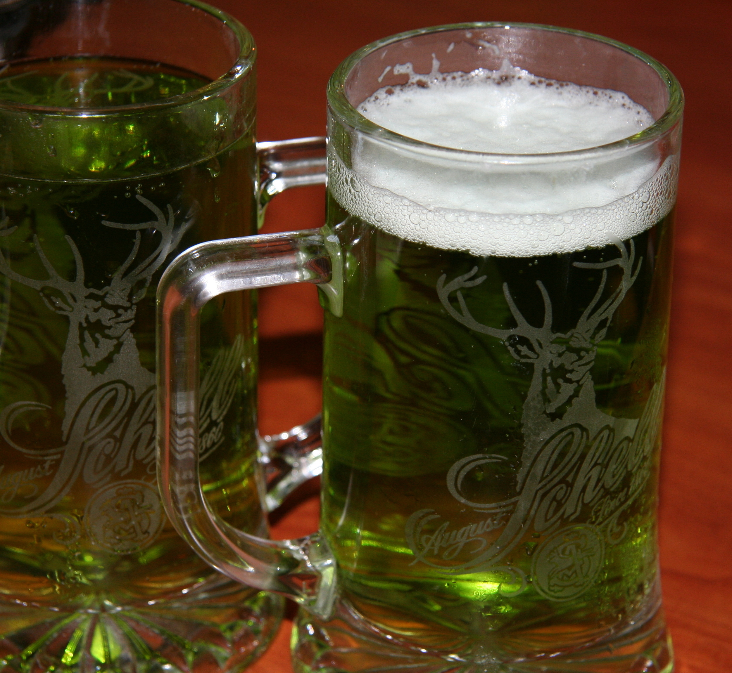 Mugs of beer mixed with a green coloring agent for Saint Patrick's Day